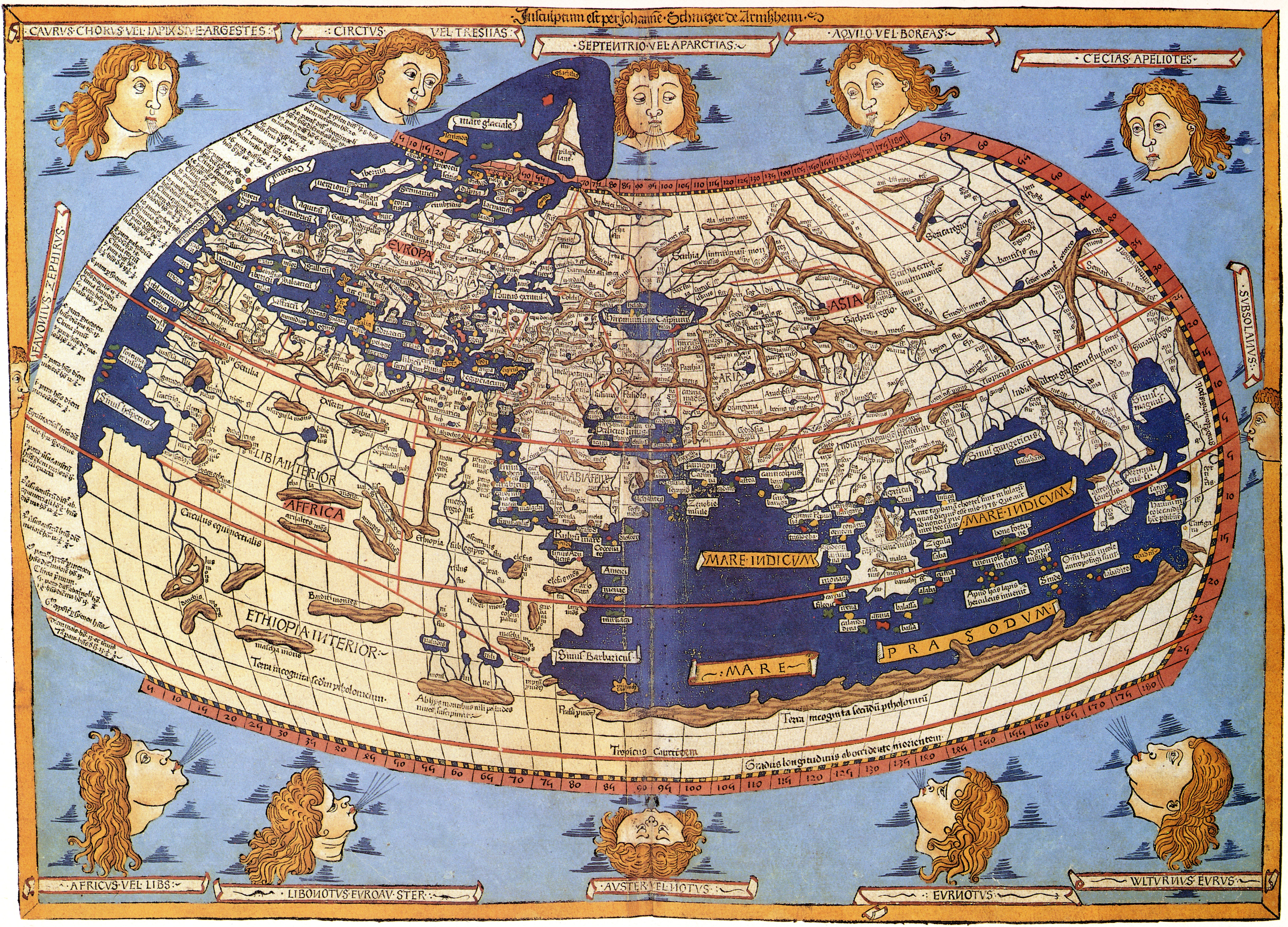 The world map from Leinhart Holle's 1482 edition of Nicolaus Germanus's emendations to Jacobus Angelus's 1406 Latin translation of Maximus Planudes's late-13th century rediscovered Greek manuscripts of Ptolemy's 2nd-century Geography.